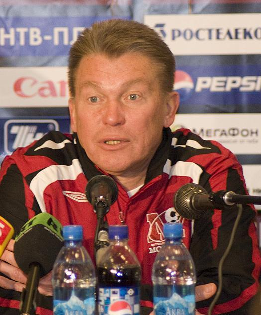 Oleg Blokhin at coach FC Moscow